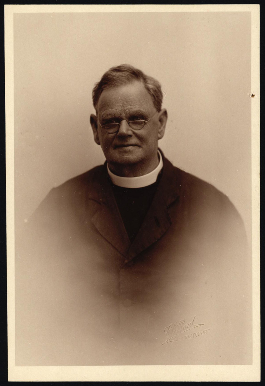 Archives New Zealand Reference: ACGO 8333 IA1 1349 / 15/11/21089